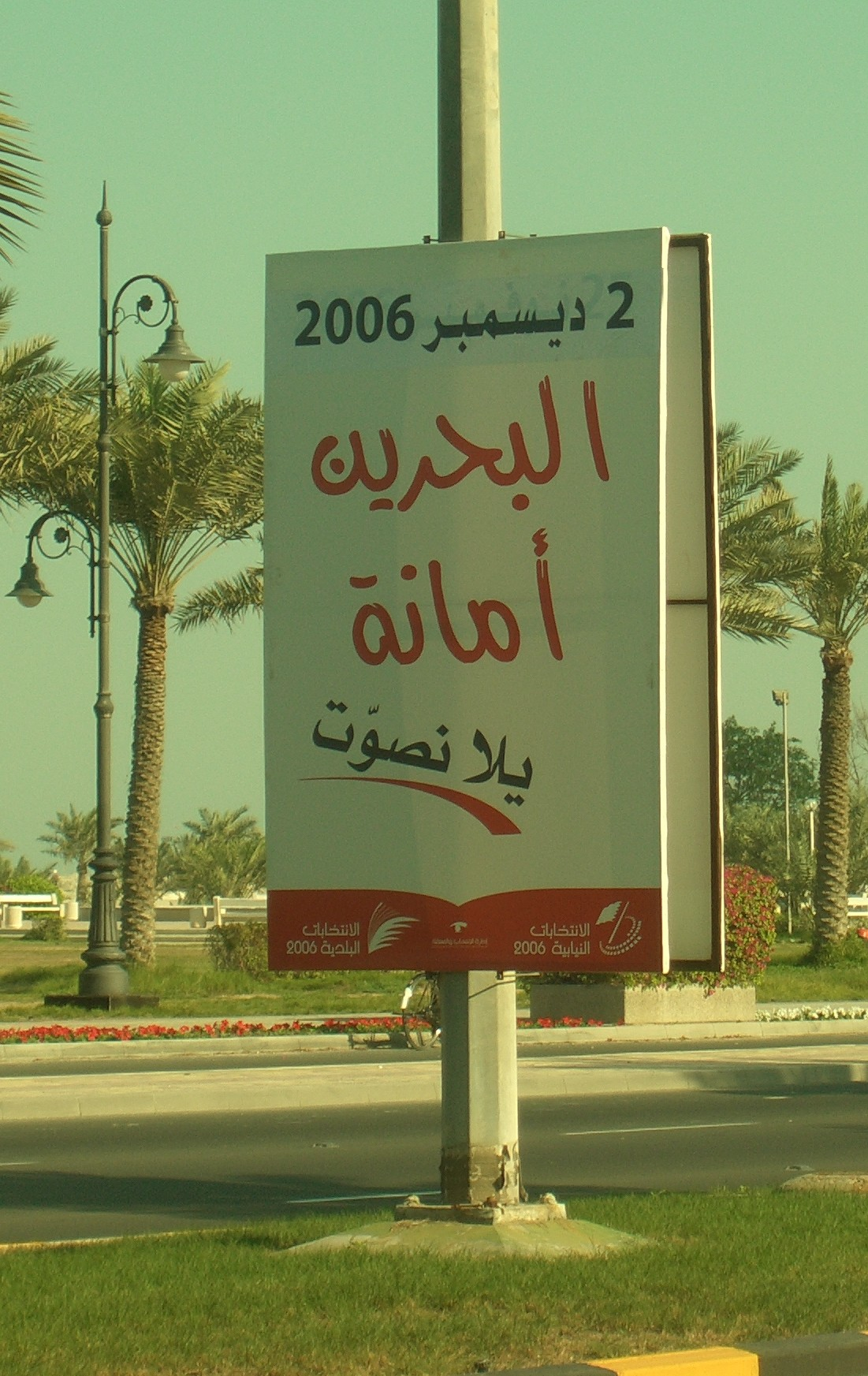 Photo: Soman